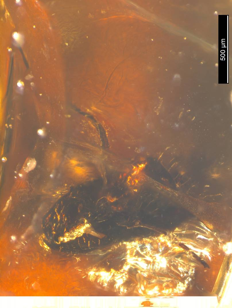 Close-up view of the Aphaenogaster dlusskyana holotype workers head. Sakhalin Amber, Naibuchi Formation, Middle Eocene, 43-47 Ma; Sakhalin Island, Far East Russia Borissiak Paleontological Institute of the Russian Academy of Sciences, Moscow, Russia (PIN). PIN 3387/172